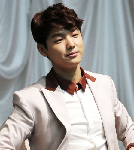 Kang Min-hyuk at CNBLUE's mini-album Can't Stop fan sign event at the Airforce Club in the Yeongdeungpo District of Seoul, South Korea, on March 21, 2014.